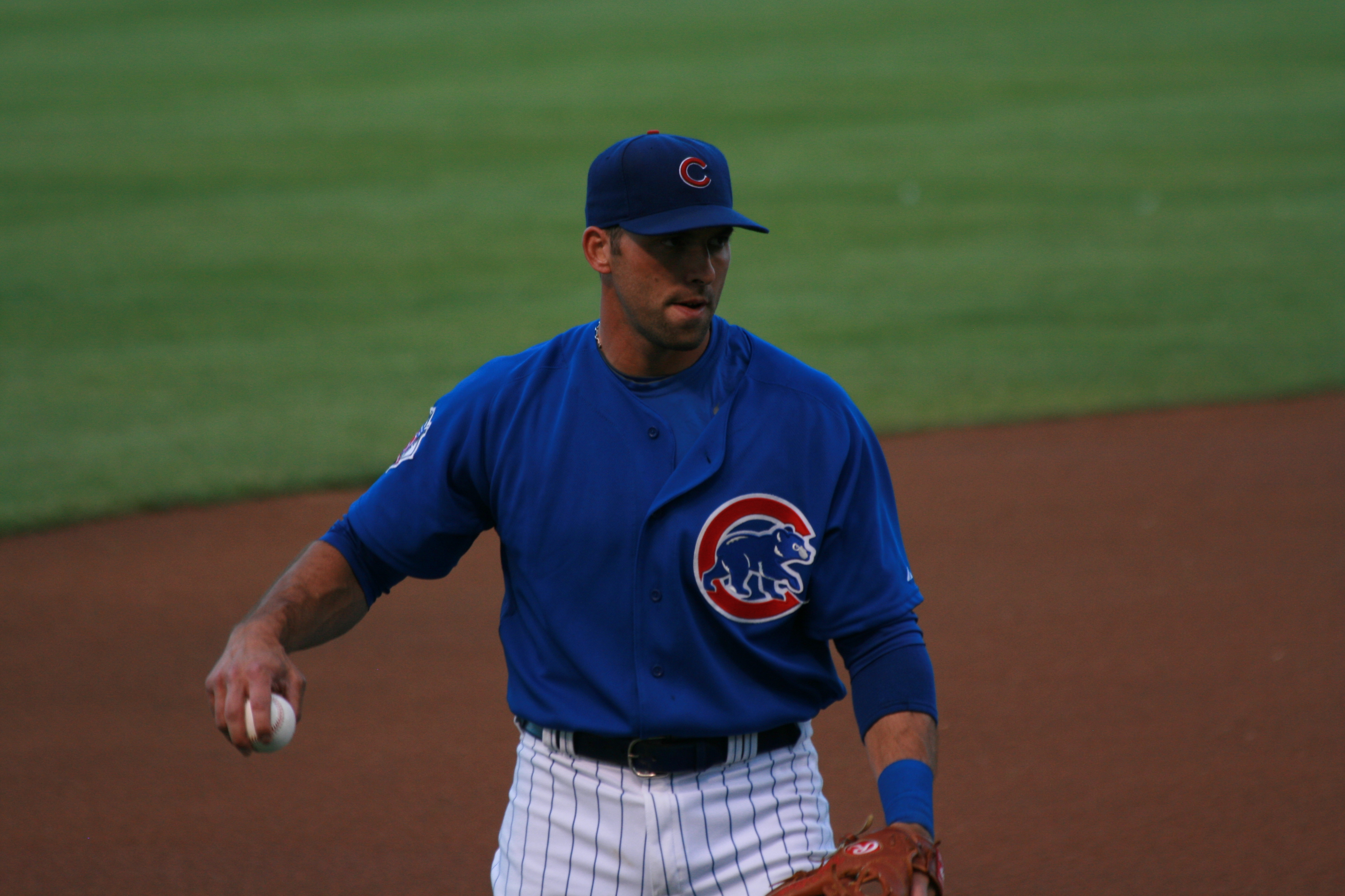 Mark DeRosa of the Chicago Cubs warms up before a game.